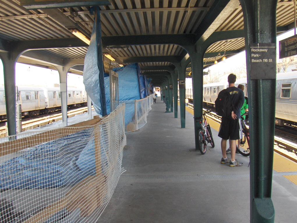 Beach 116th Street